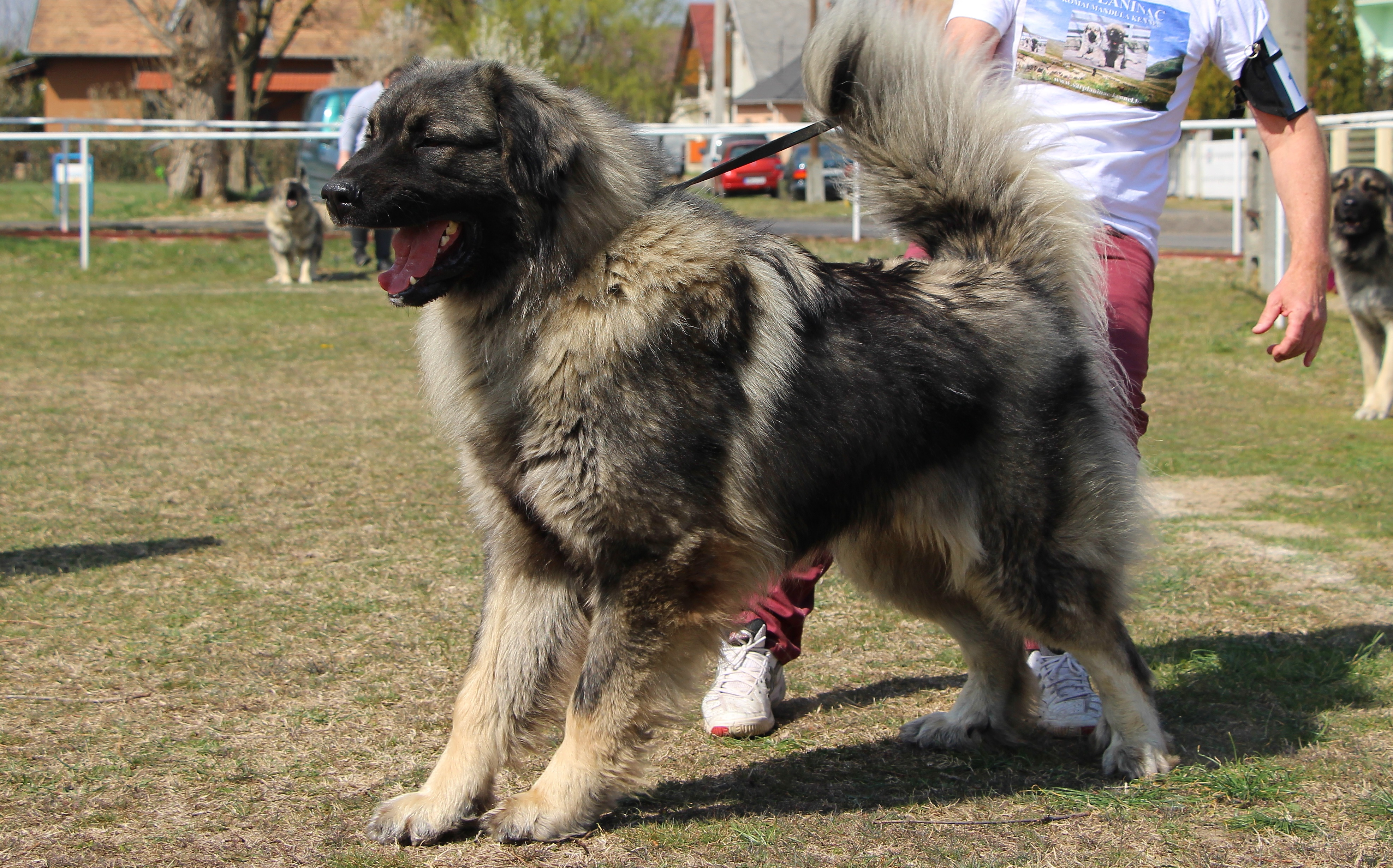 Muri-Emír 15 month old sarplaninac male in the Dog Show